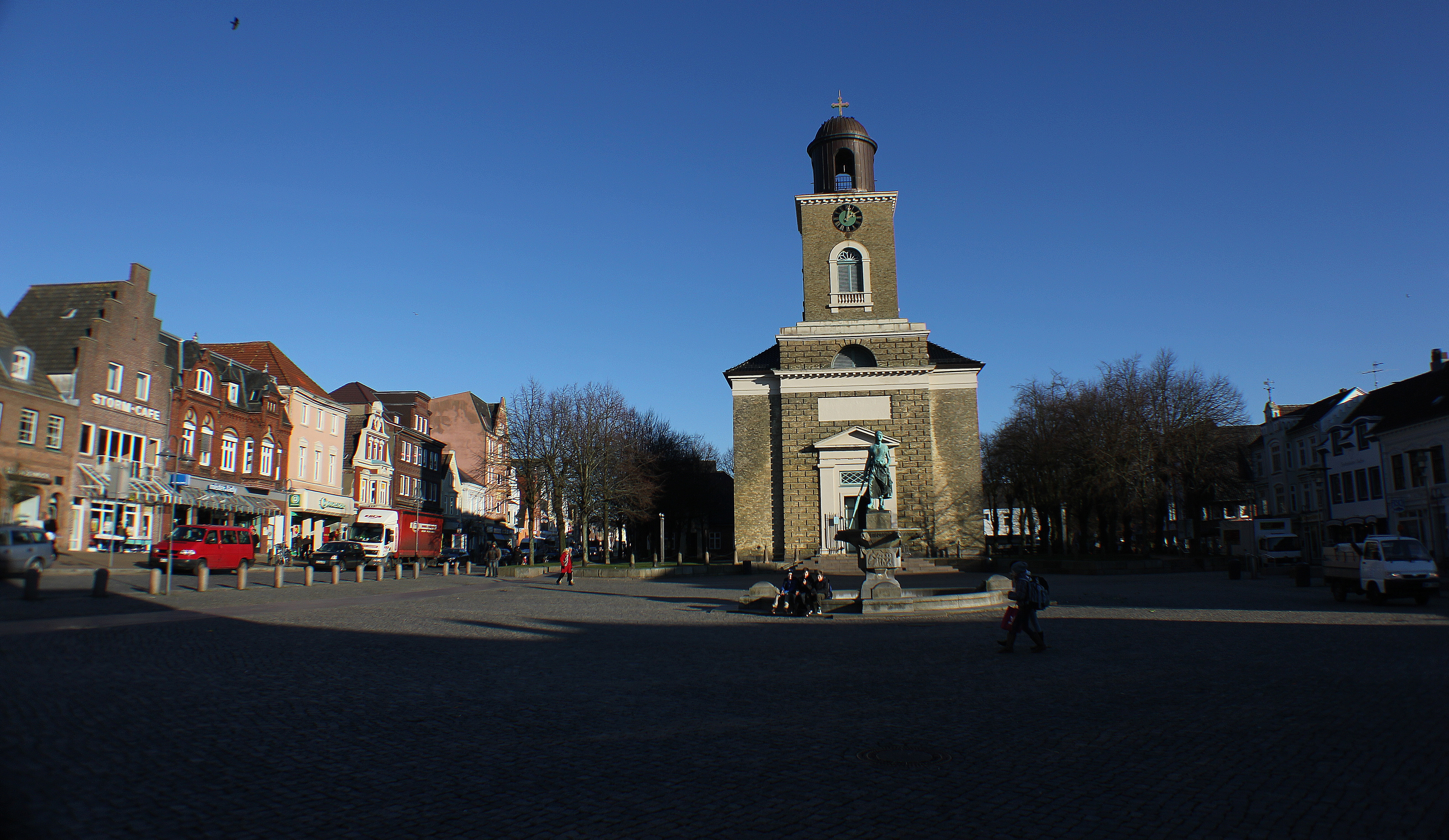 Husumer Marktplatz mit Marienkirche und Tine-Brunnen